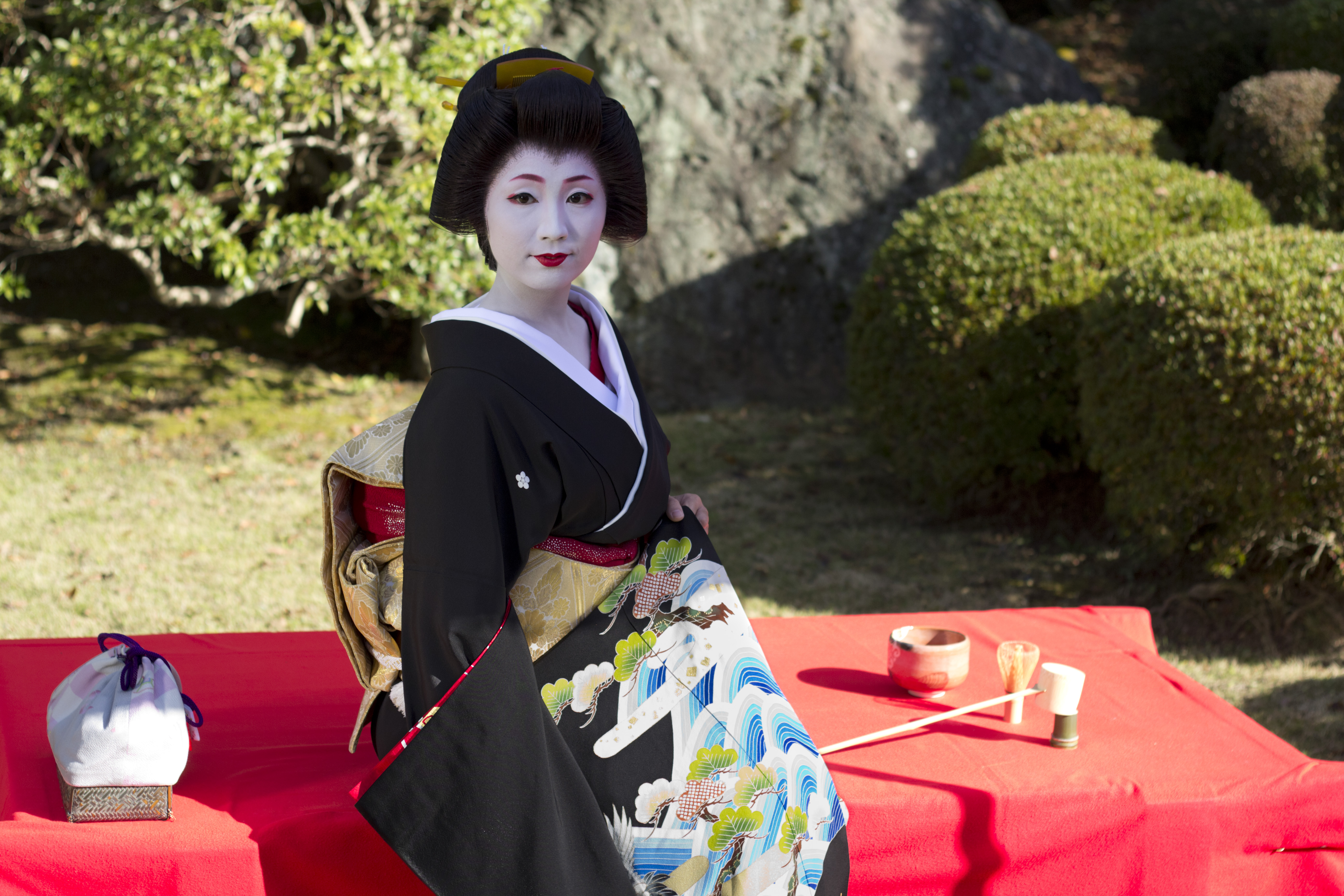 Gion geisha Sayaka wearing a kuro-tomesode. Photo by